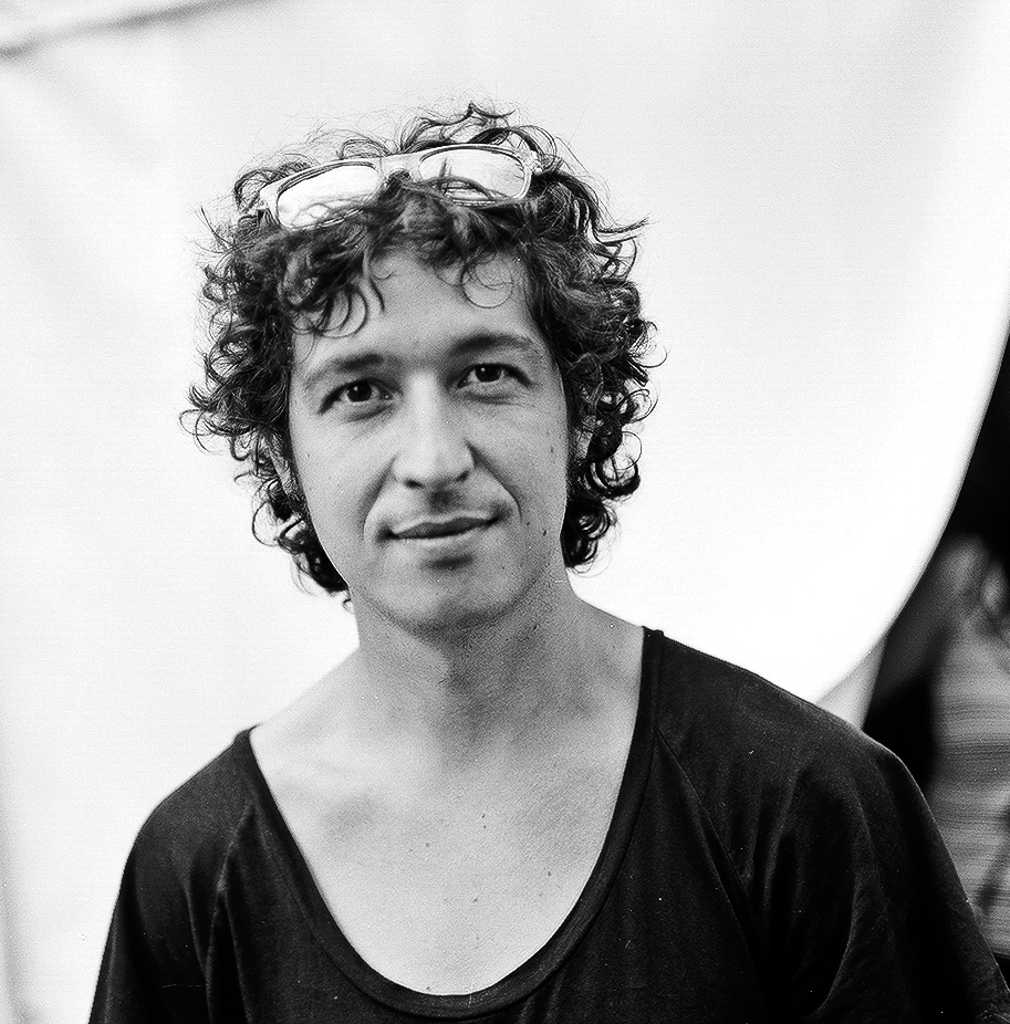 Shurov